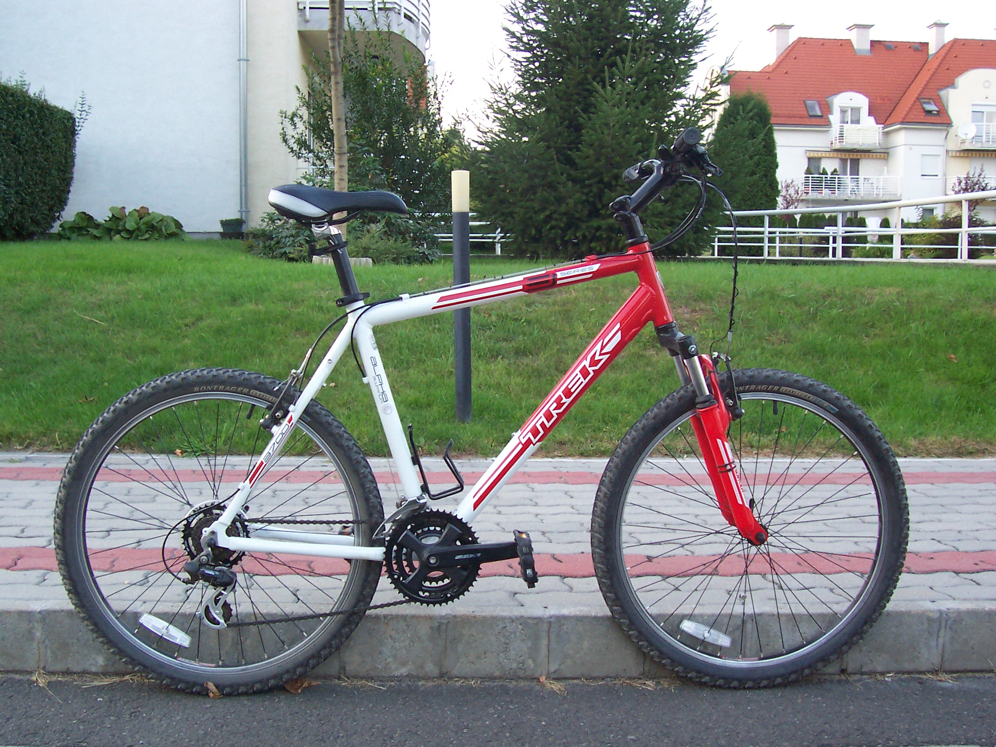 A Trek 3700 mountain bike hardtail (model 2009).